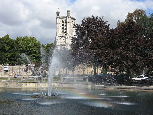 Troyes Fountain Camera: Canon PowerShot SD700 IS License on Flickr (2010-12-28): CC-BY-2.0 Flickr tags: France, Champagne, Fountain, Canal, Water, Spray, Church, Rainbow